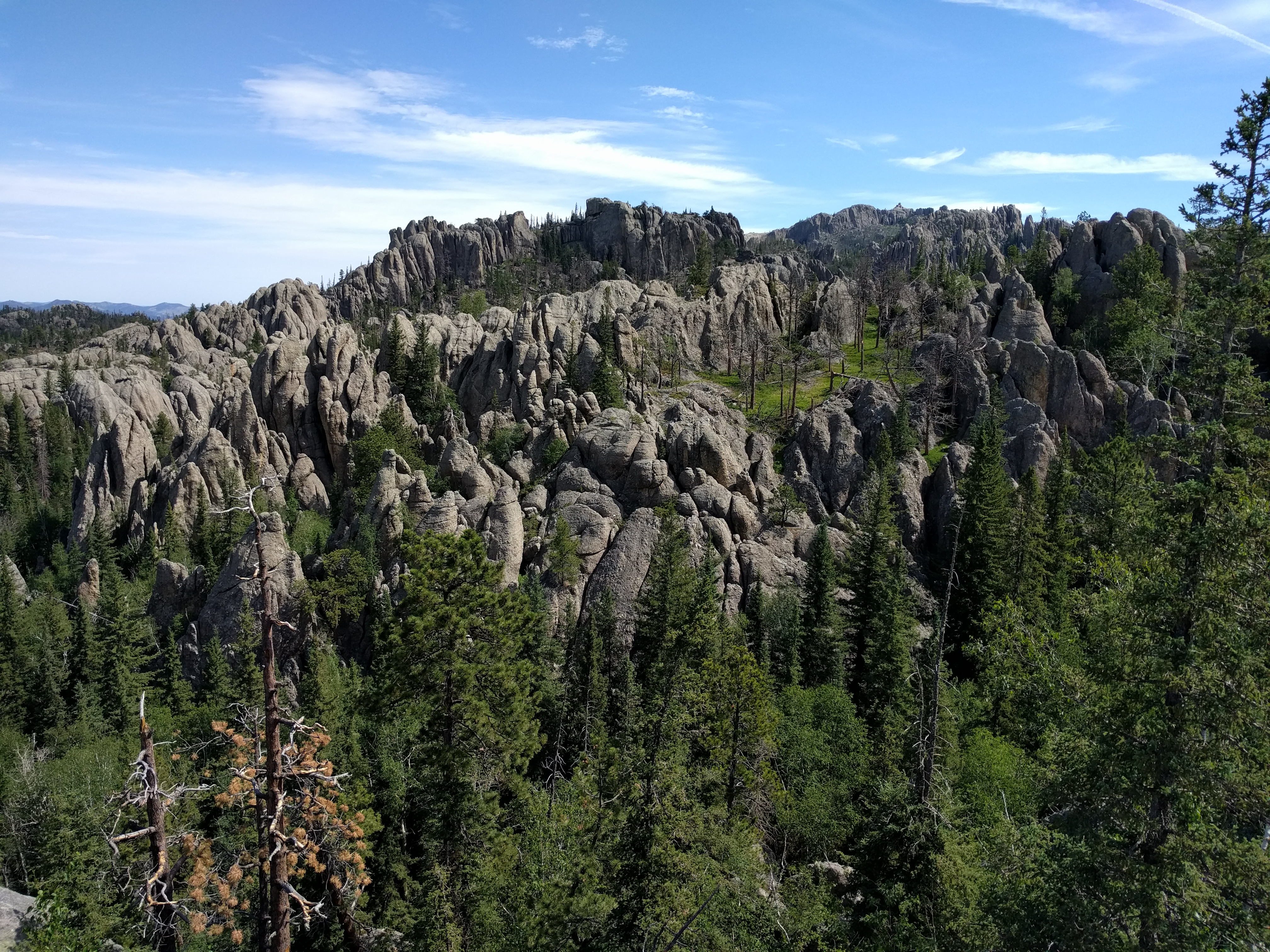 Hiking trip up Harney Peak (now Black Elk Peak) in July 2016